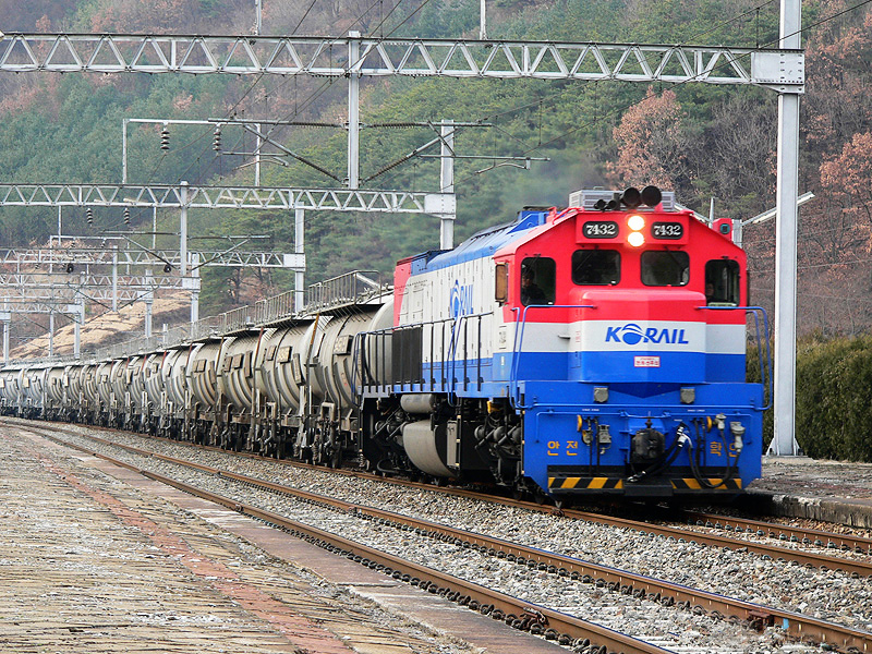 KORAIL 7400series diesel-electric locomotive